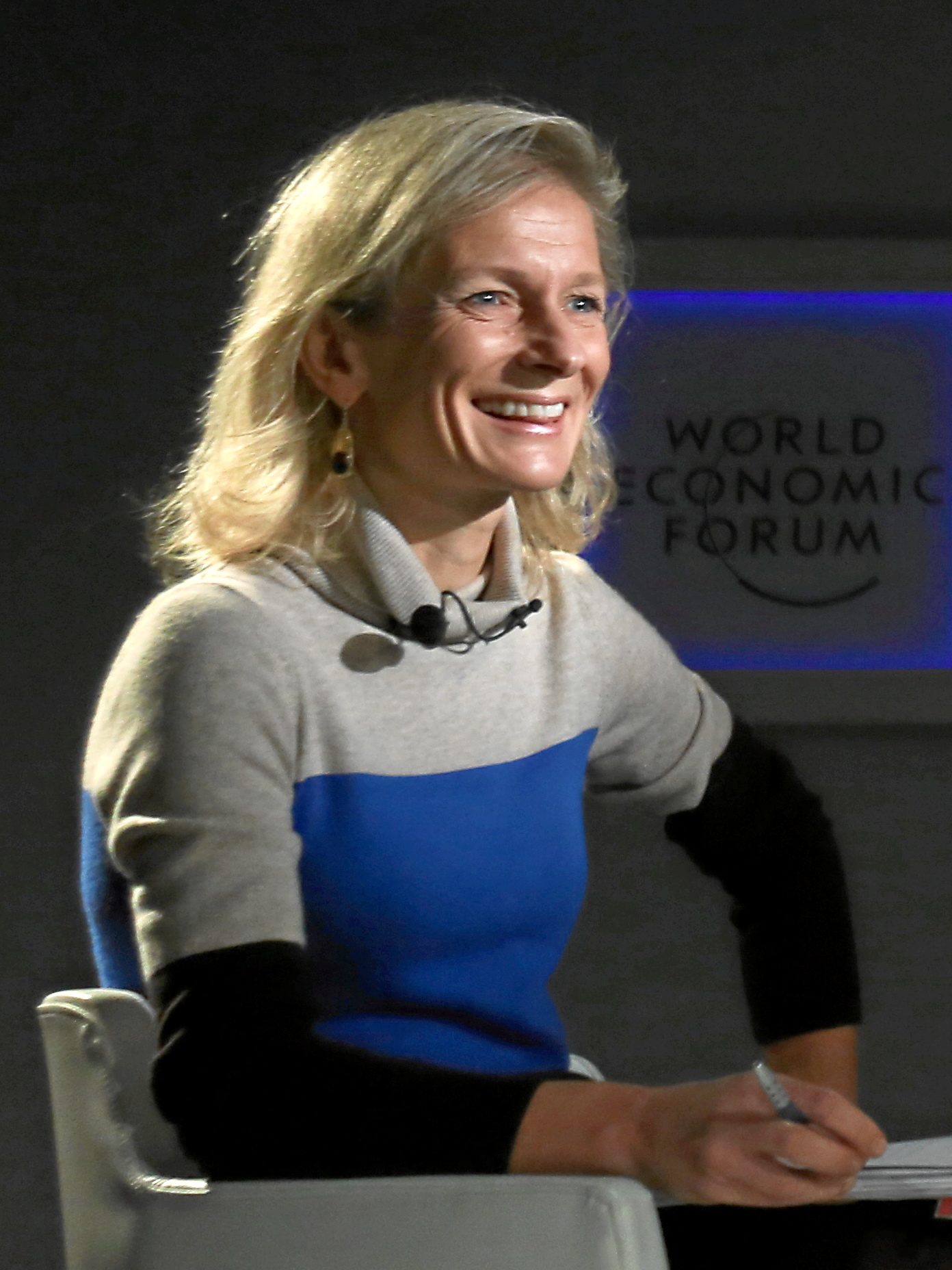 DAVOS/SWITZERLAND, 23JAN13 - Zanny Minton Beddoes, Economics Editor, The Economist, United Kingdom; Global Agenda Council on Fiscal Sustainability, discuss issues during the one-on-one session 'An insight, an idea with Clayton Christensen - Rebuilding Economic Confidence' at the Annual Meeting 2013 of the World Economic Forum in Davos, Switzerland, January 23, 2013. Copyright by World Economic Forum Monika Flueckiger